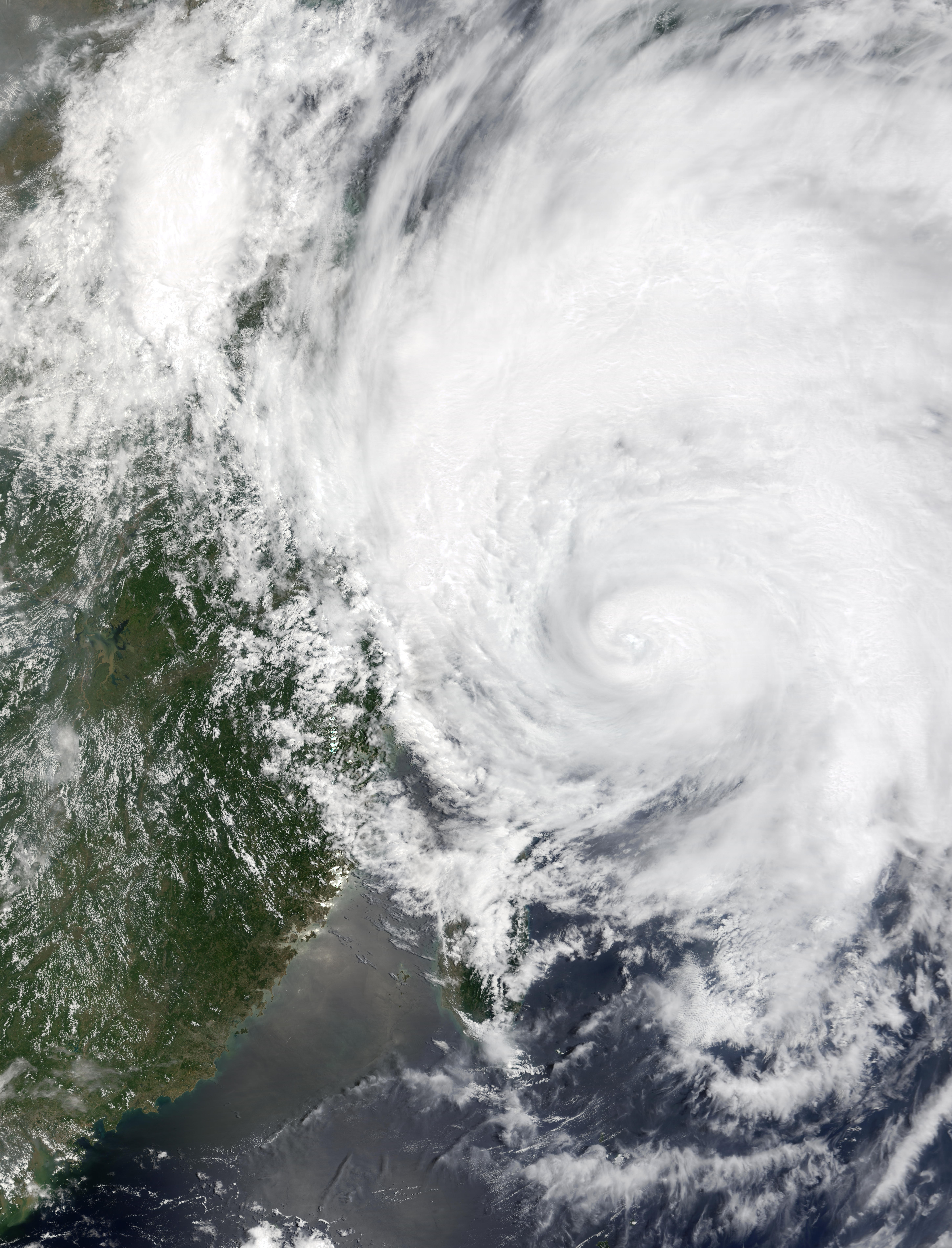 Before winding down on July 6, 2002, Typhoon Rammasun reached Category 3 hurricane status, with maximum sustained winds of 110 knots (127 miles per hour). On July 3 and 4 4, 2002, the Moderate Resolution Imaging Spectroradiometer (MODIS) captured these images of the storm off the coast of east-central China and Taiwan (partially cloud covered near center of image). The storm veered northward and eventually made landfall over Korea, where it broke up.